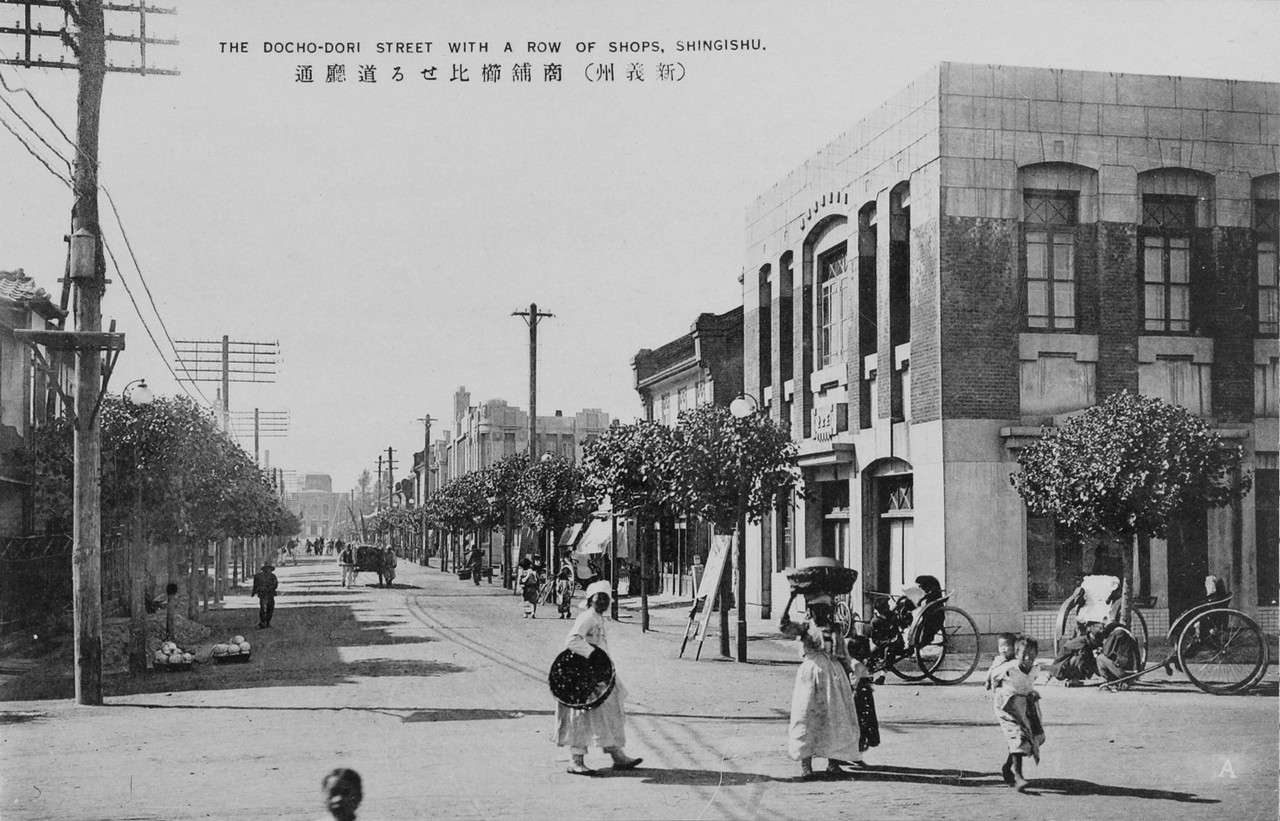 Postcard showing Toch'ŏng Street in Sinuiju ("Docho-Dori Street" in "Shingishu") in the 1930s Japanese occupied Korea.